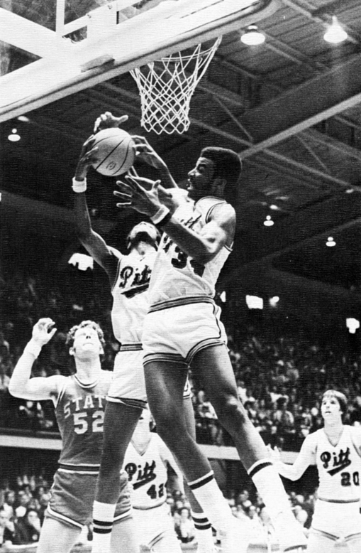 The University of Pittsburgh Panthers basketball All-American Billy Knight (#34) goes for a rebound against NC State in the 1974 Elite Eight.